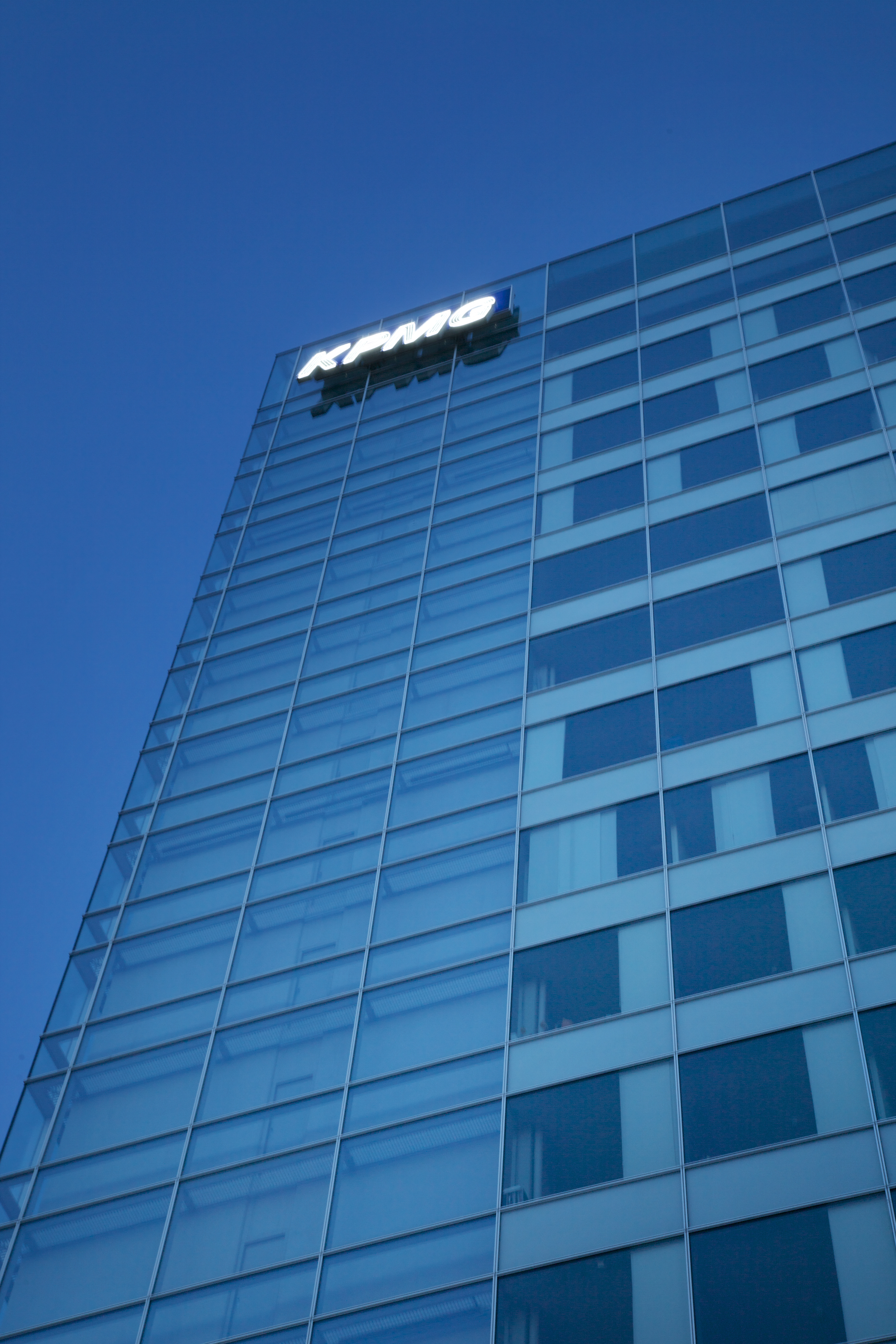 KPMGs office building in Oslo, Norway.